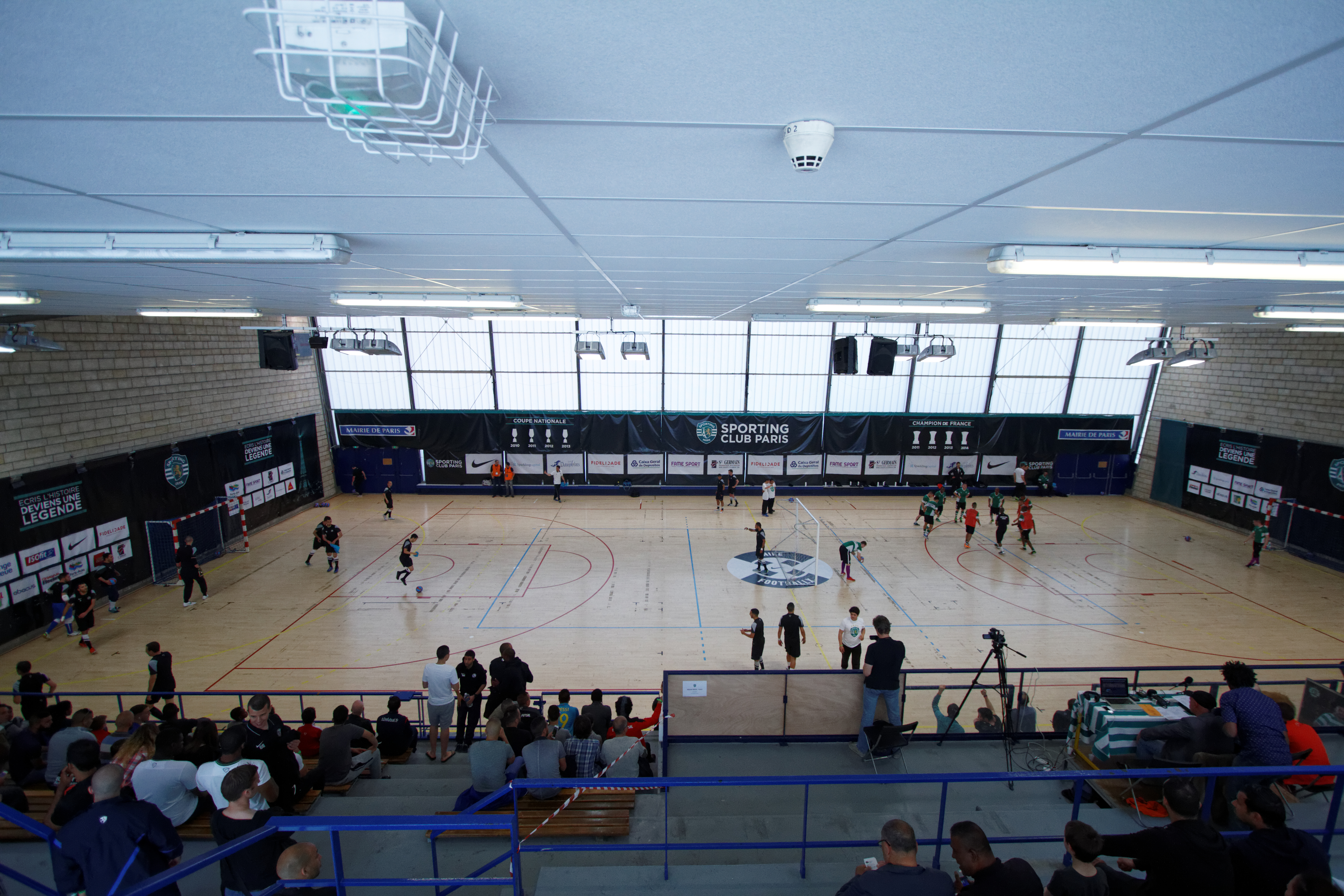 France futsal championship. Play-off. Sporting Club de Paris vs Kremlin-Bicêtre United.